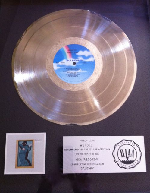 Roger Nichols Personal Collection